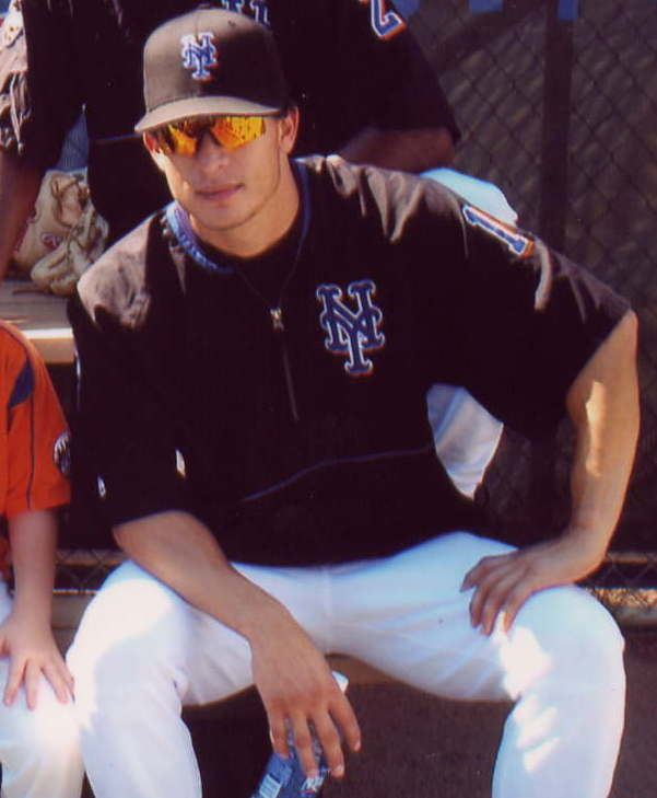 Tyler Yates, Craig Brazell, Gary Pettis and Danny Garcia of the New York Mets with a young fan at a clinic at Shea Stadium in 2004